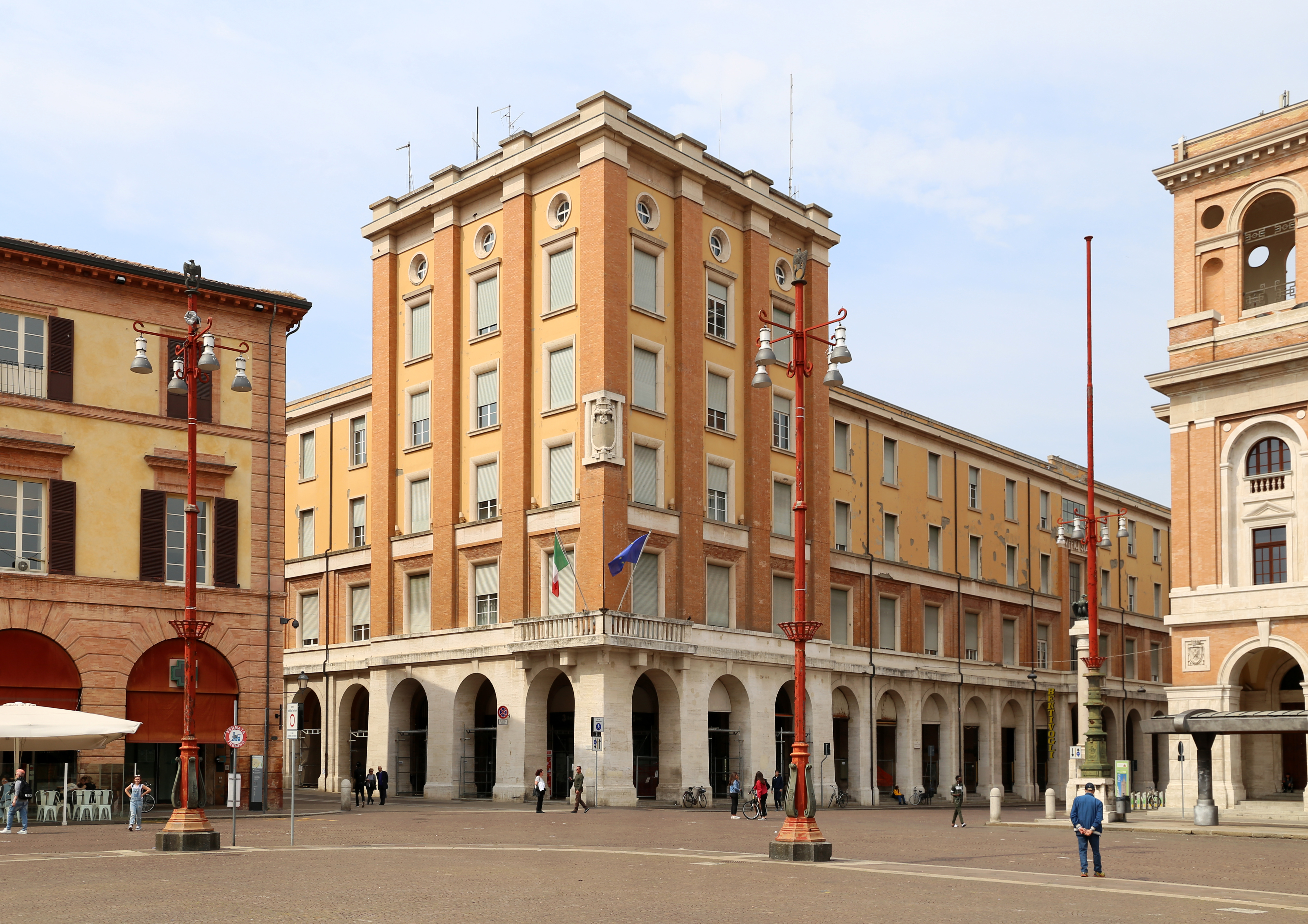 Palaces in Forlì